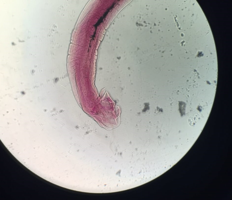 دم نکاتور نر